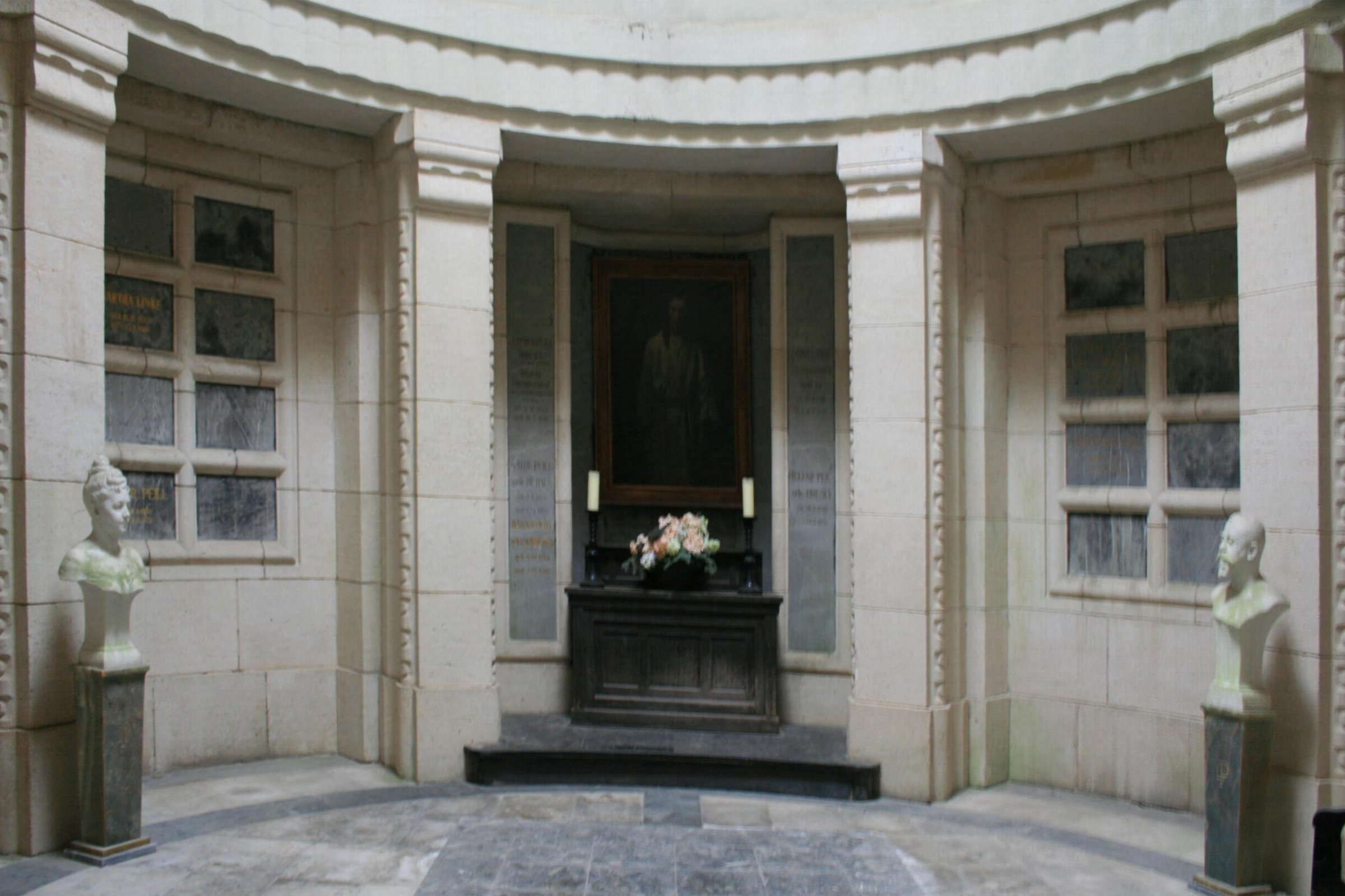 Cultural heritage monument No. 1/075 in Düren